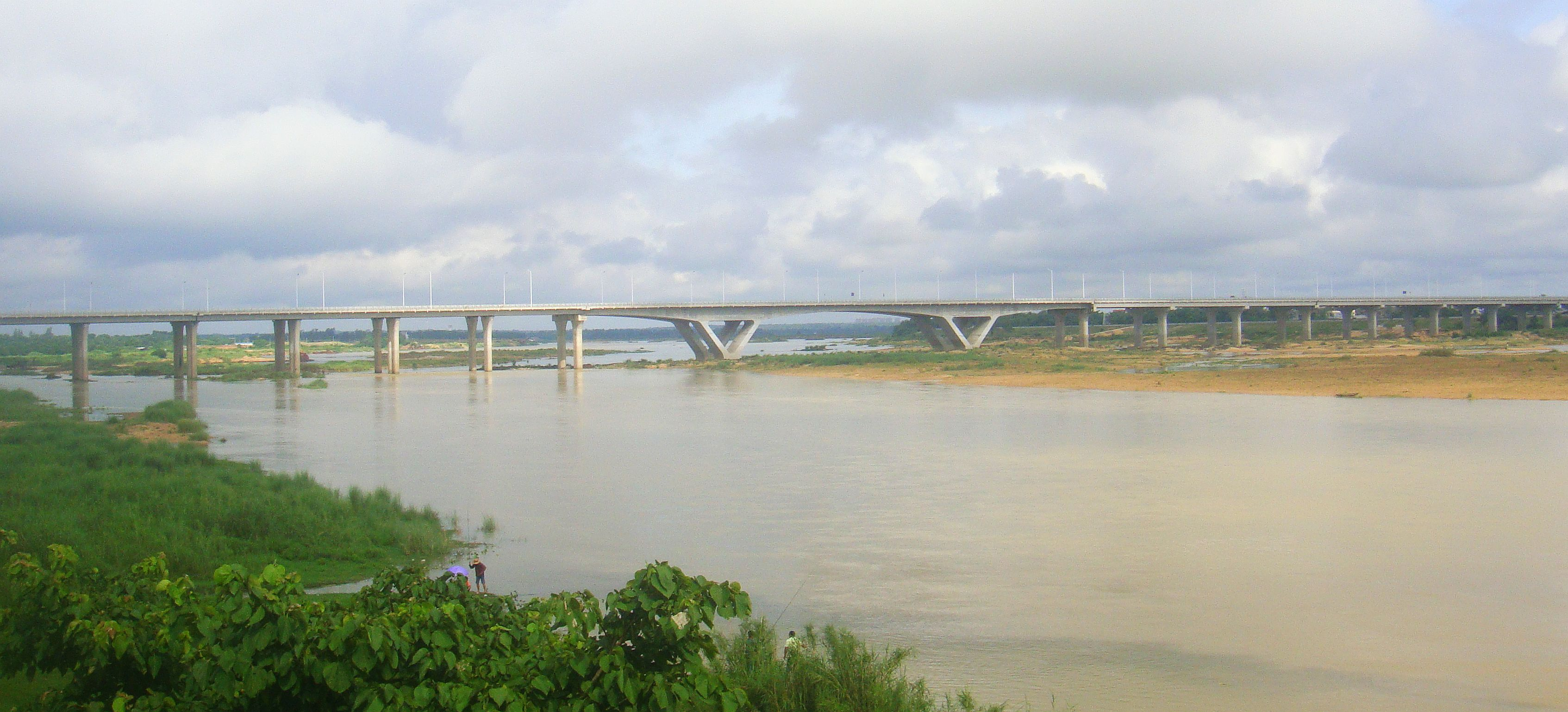 Dinghai Bridge viewed from the west end of Ding an, on the south bank of the Nandu River, east of the bridge